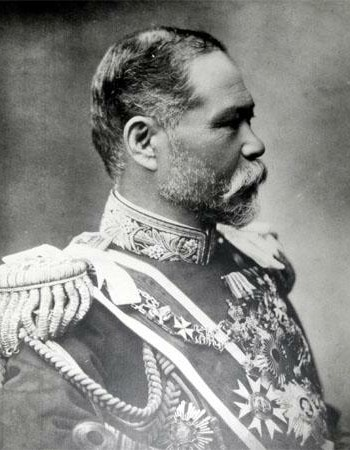 Bust portrait of Yamamoto Gonnohyoe (山本権兵衛, 1852 – 1933)